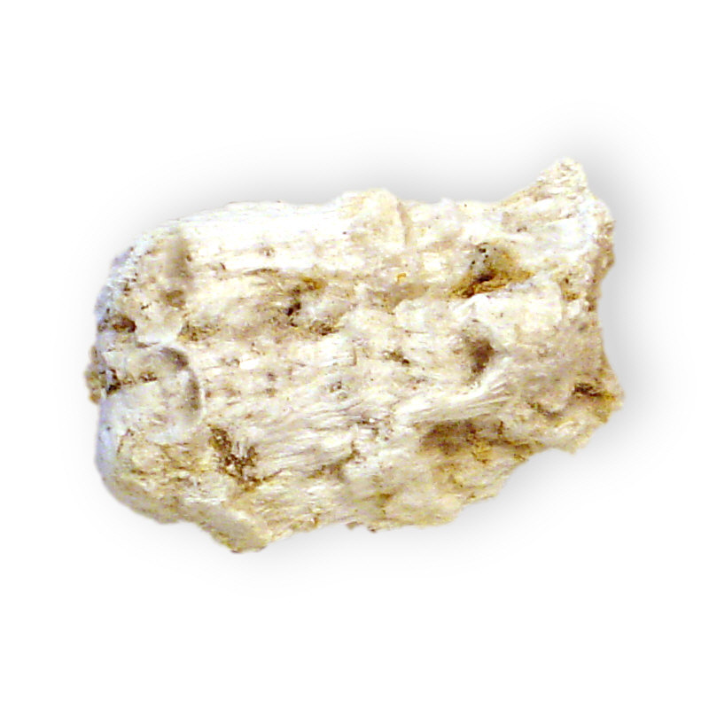 These mineral images are free to use how you wish.